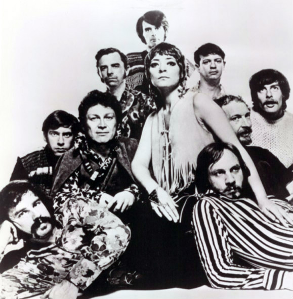 Publicity photo of Ten Wheel Drive.